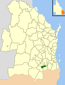 Location of the former Local Government Area in Queensland